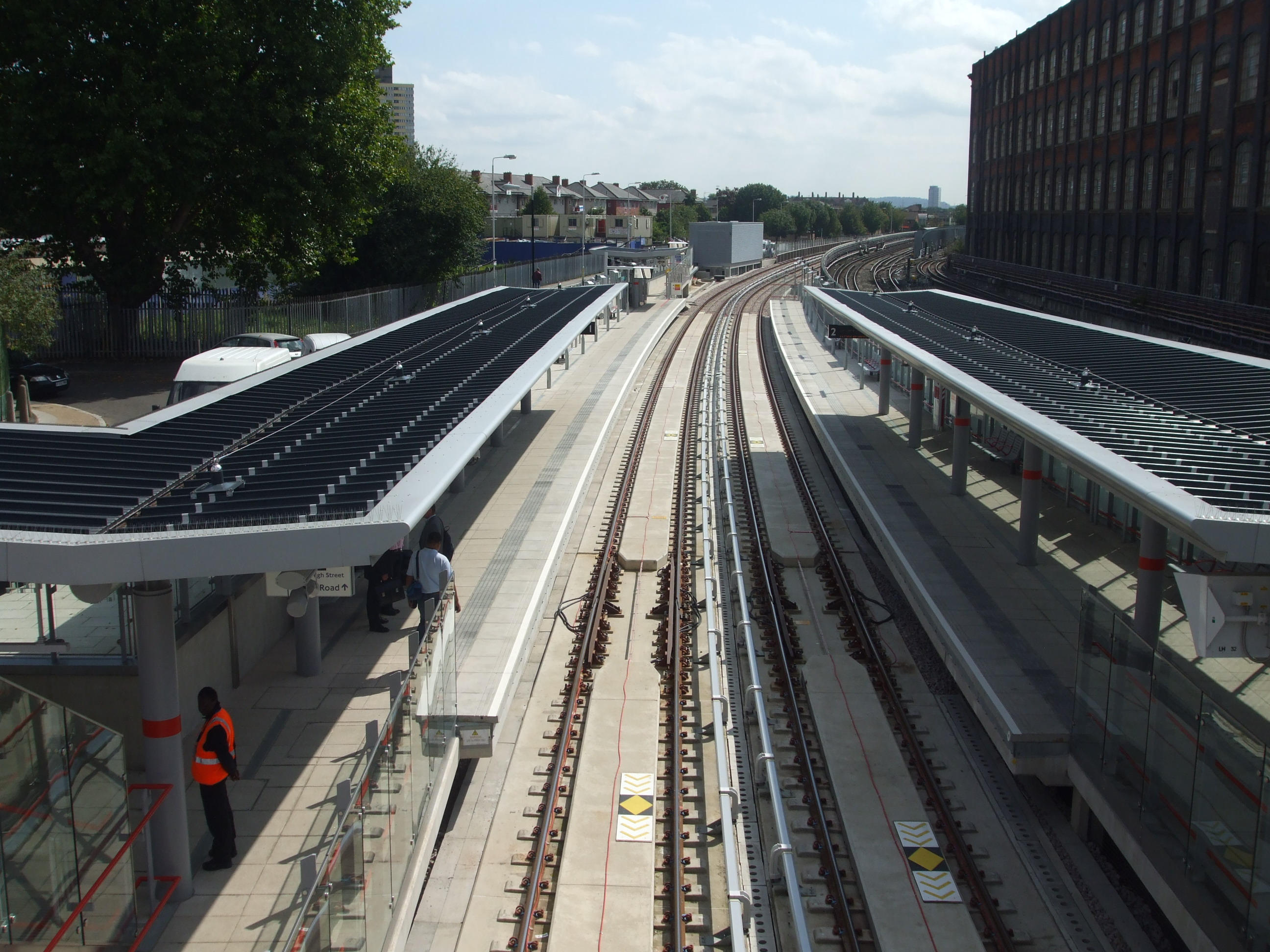 Stratford High Street DLR station looking south from footbridge. The station lies on the site of the former Stratford Market main line station.